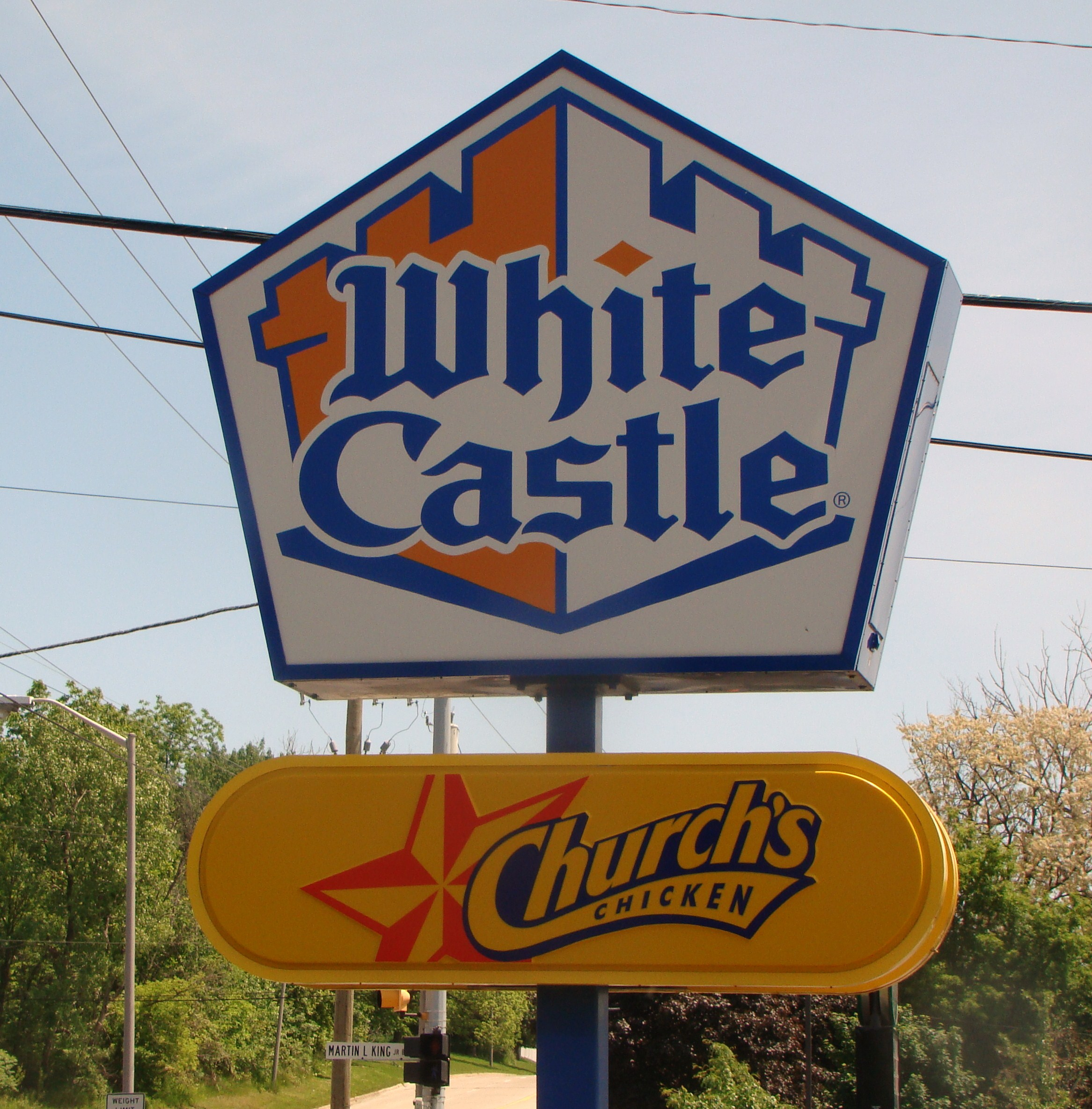 A sign from a White Castle restaurant.